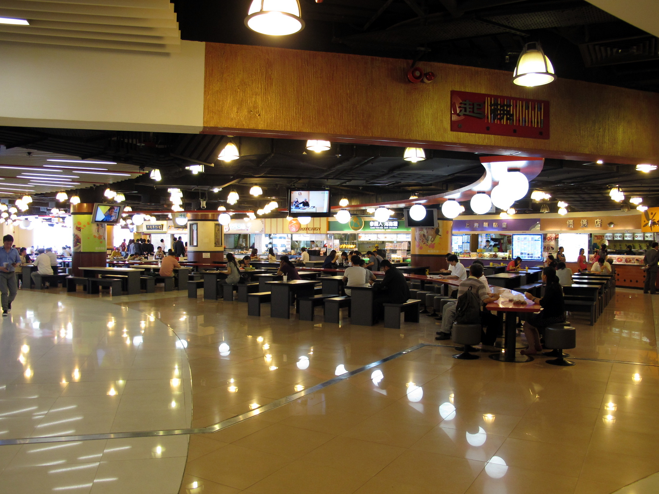 Fortune Metropolis Food Court